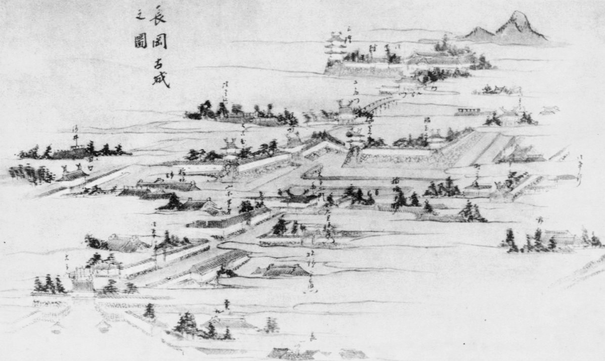 Nagaoka Castle old picture